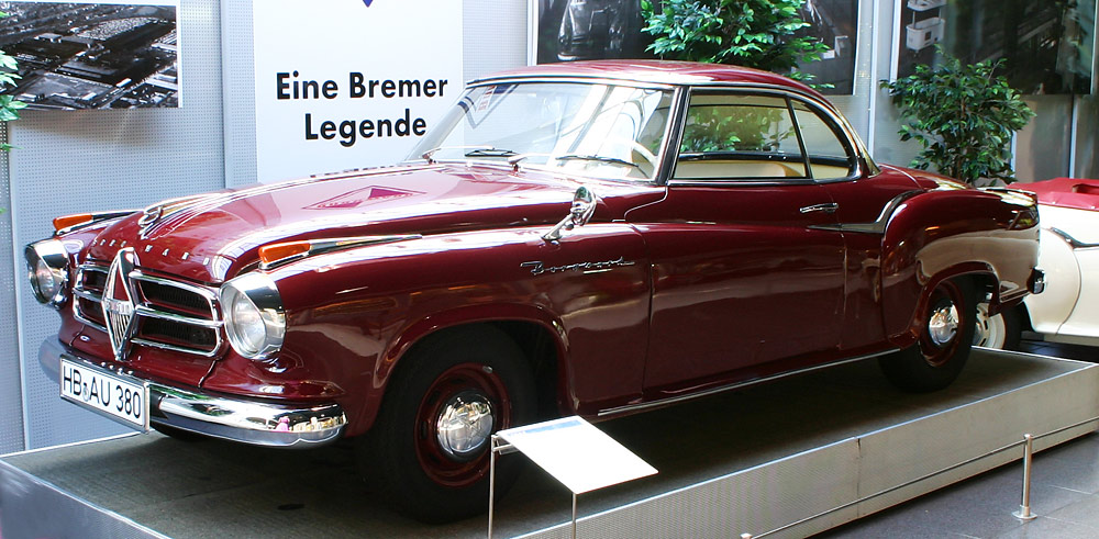 Borgward Isabella